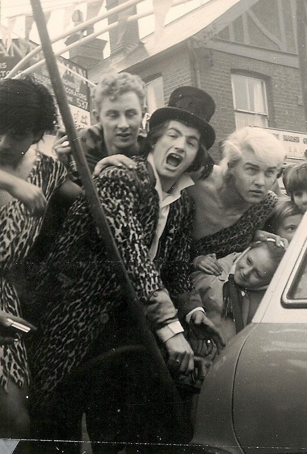 (left to to right) Tony Marsh, Colin Dale, David Edward Sutch (with top hat), Tony Dangerfield